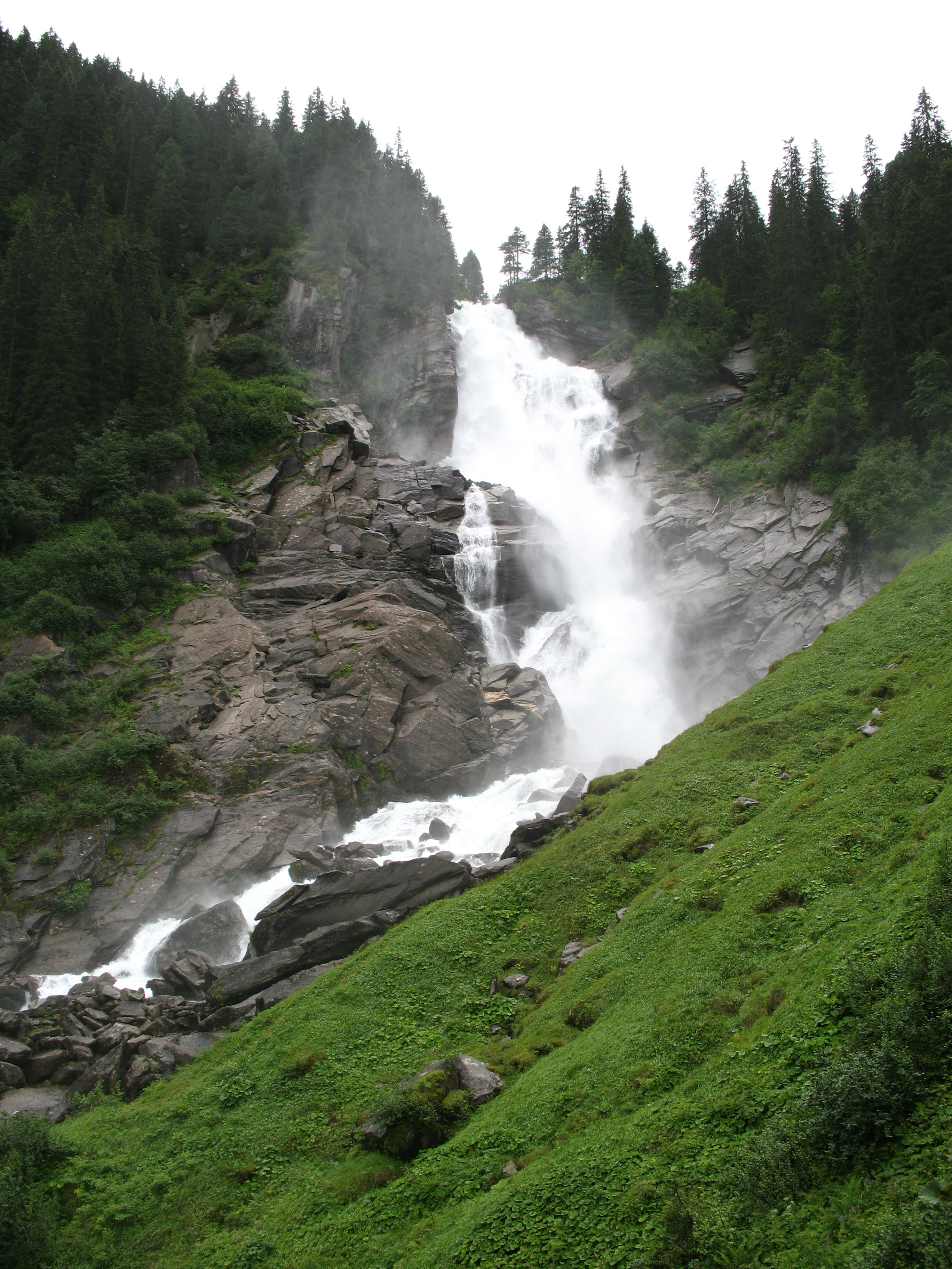 Krimml Waterfall, Hohe Tauern National Park, Austria